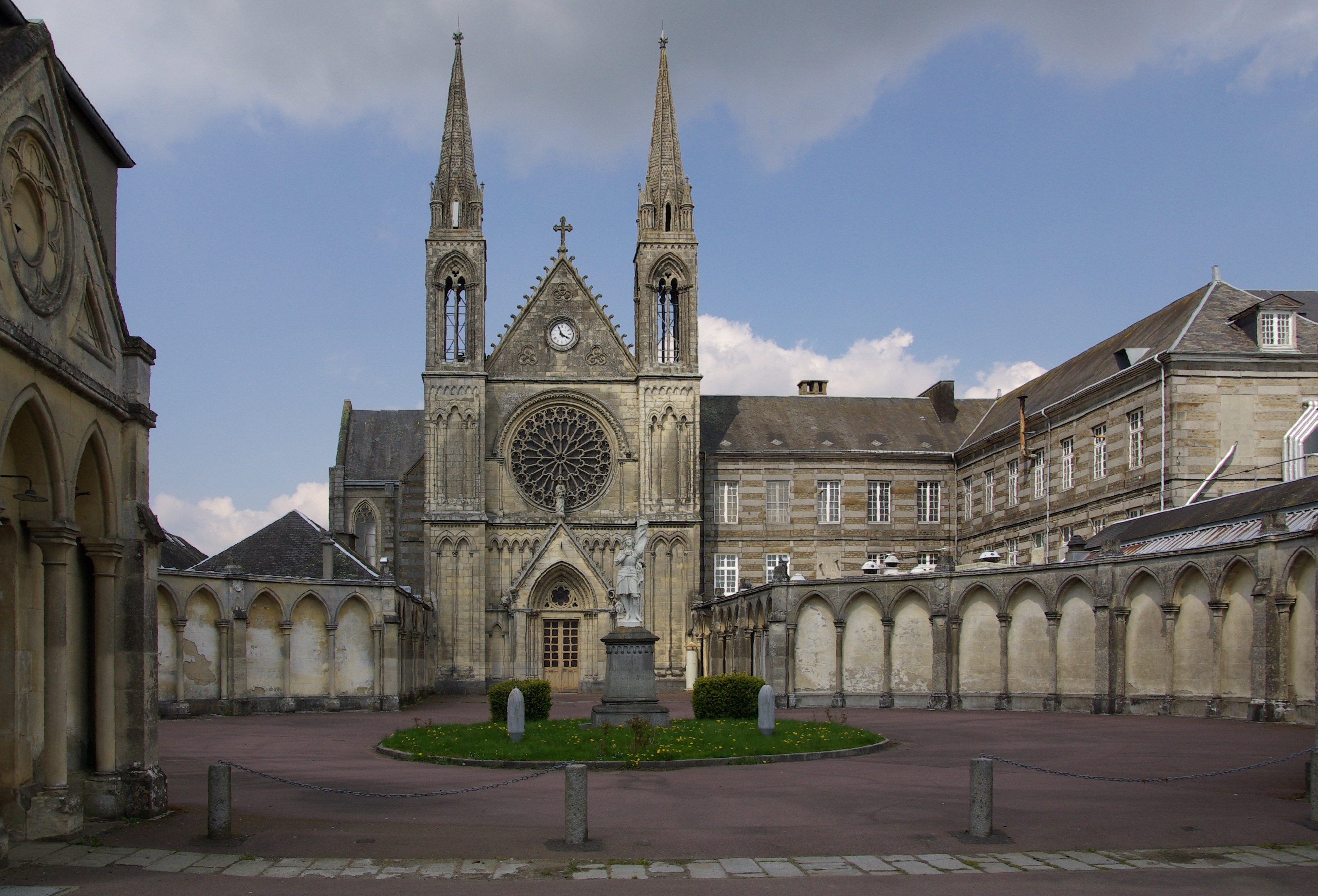 Church Sainte Marie of Tinchebray